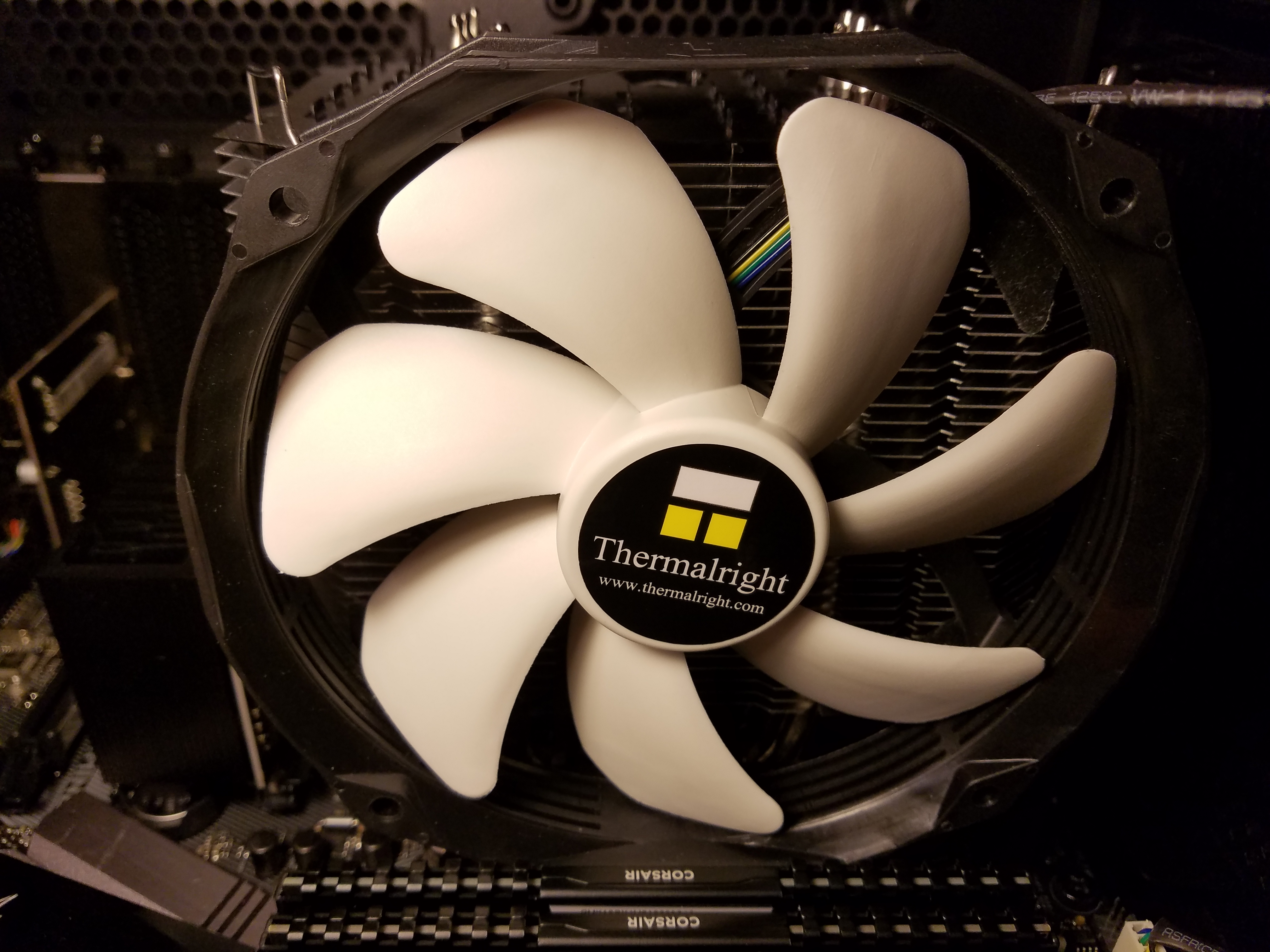 CPU cooler Thermalright Le Grand Macho RT installed into computer case